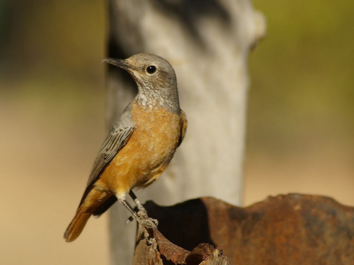 A female Short-toed Rock Thrush at Opuwo, Kunene Region, Namibia